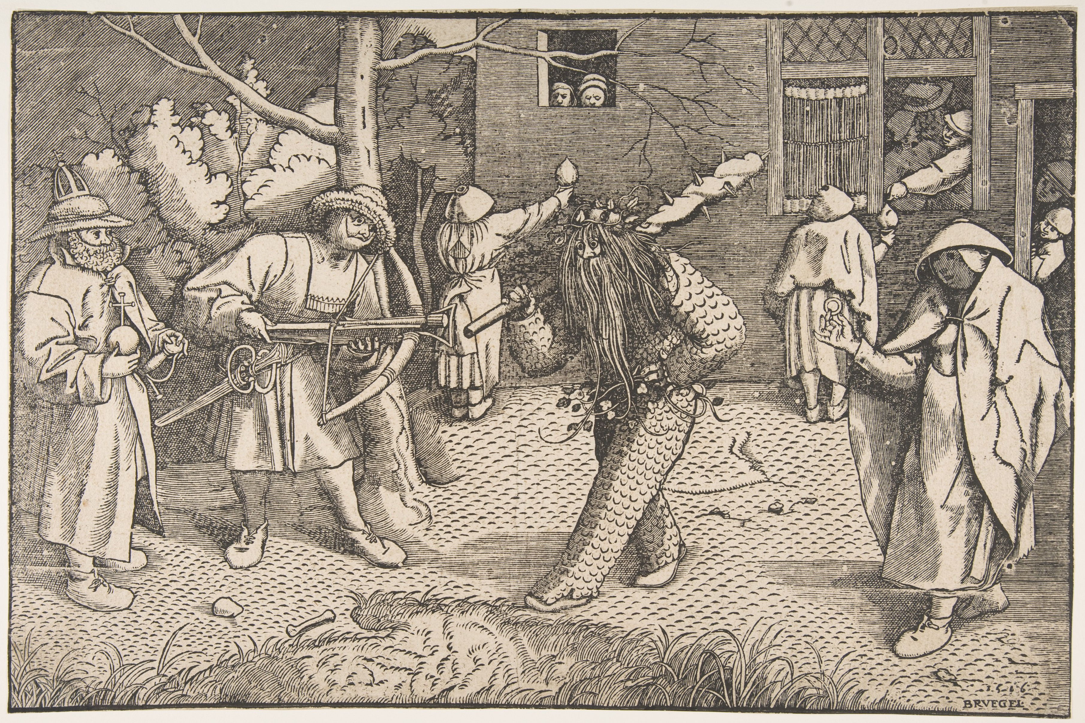 Print; Prints